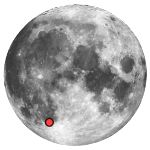 Description: Location of the Pitatus crater on the Moon. The marker also shows the proximity of the Hesiodus, Lippershey, Wurzelbauer, and Gauricus craters. Source: This is a modified version of a photo obtained from the NASA Planetary Photojournal. It was modified by RJHall. Width: 150 pixels Height: 150 pixels